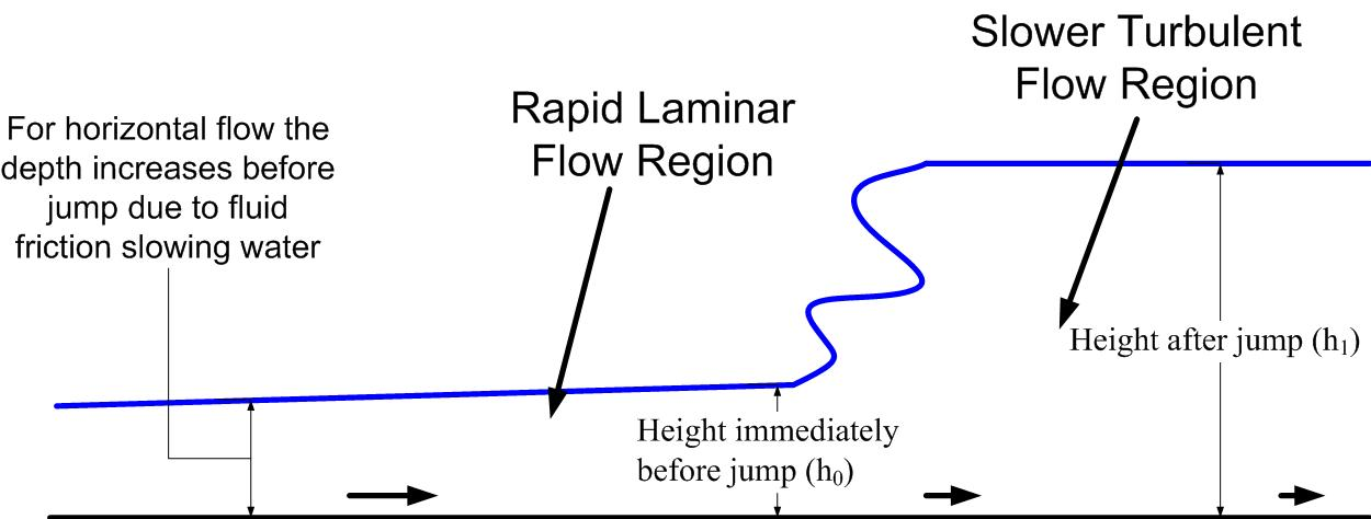 Schematic diagram of the cross-section of a hydraulic jump